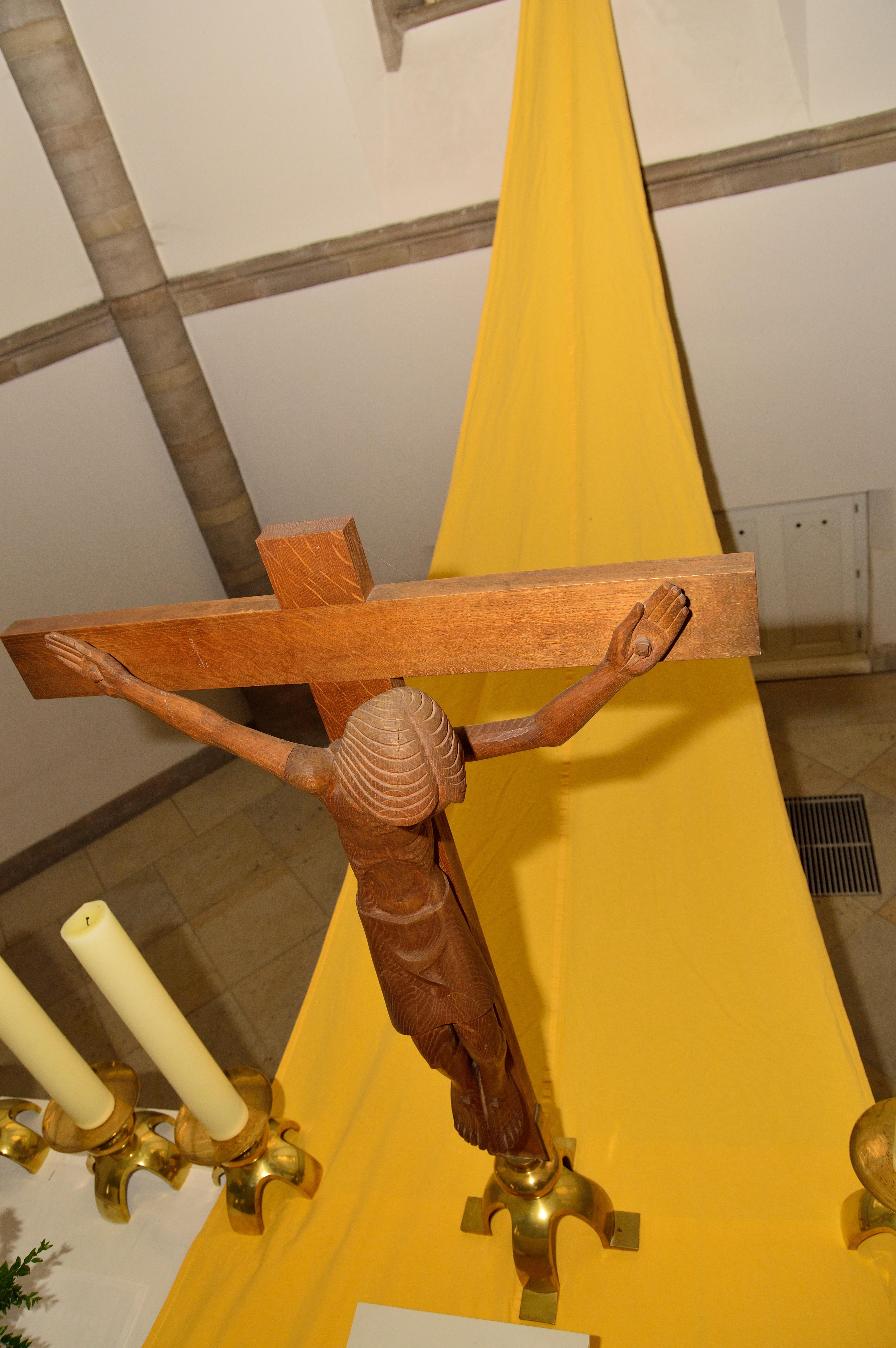 Garnisonkirche Oldenburg inner view